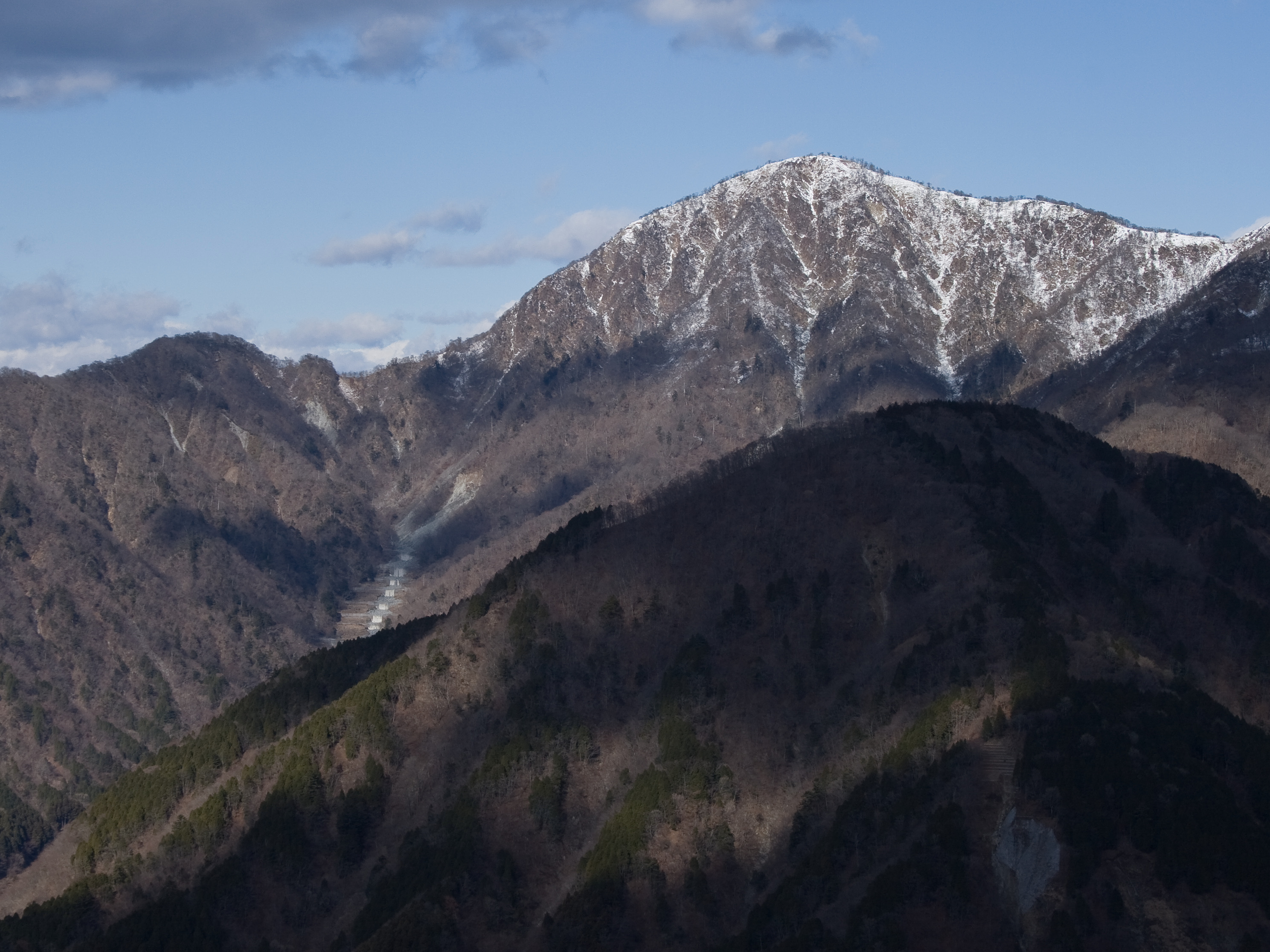 Mt.Hirugatake (1673m Hiru-ga-take) as seen from Nabewari-ridge (Nabewari-sanryo), Tanzawa Mountains, Kanagawa, Japan. Mt.Hirugatake is the highest peak of the Tanzawa Mountains.